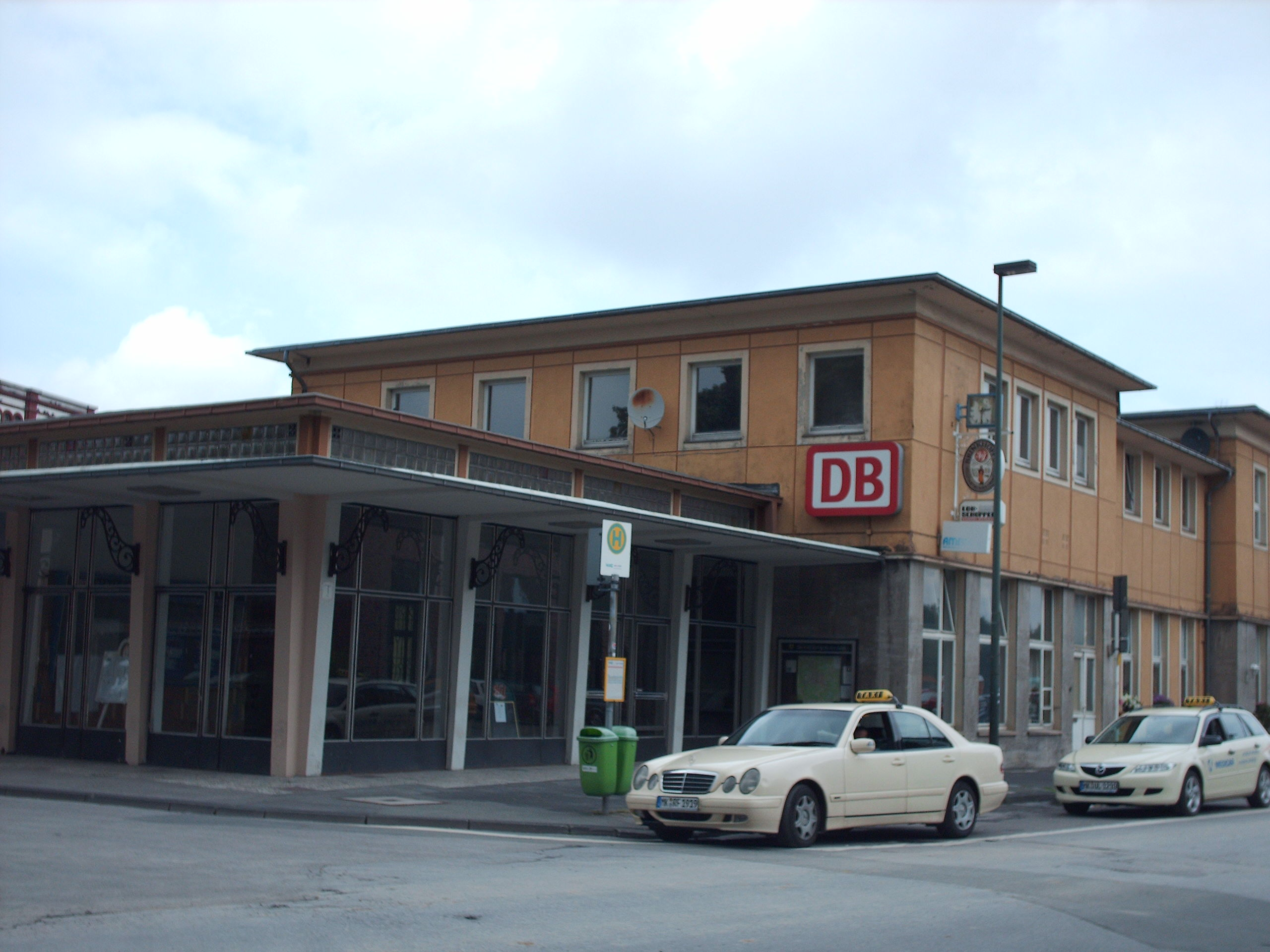 Former station building, demolished in 2009, Lüdenscheid, Germany check usage